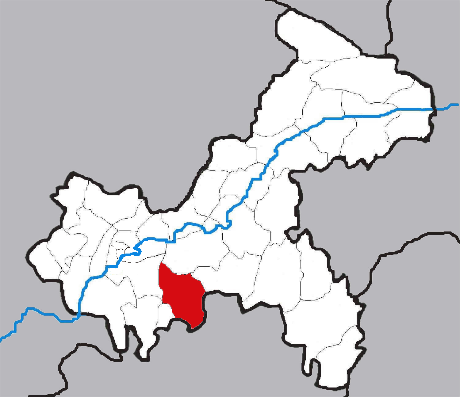 Administration maps of Chongqing, China